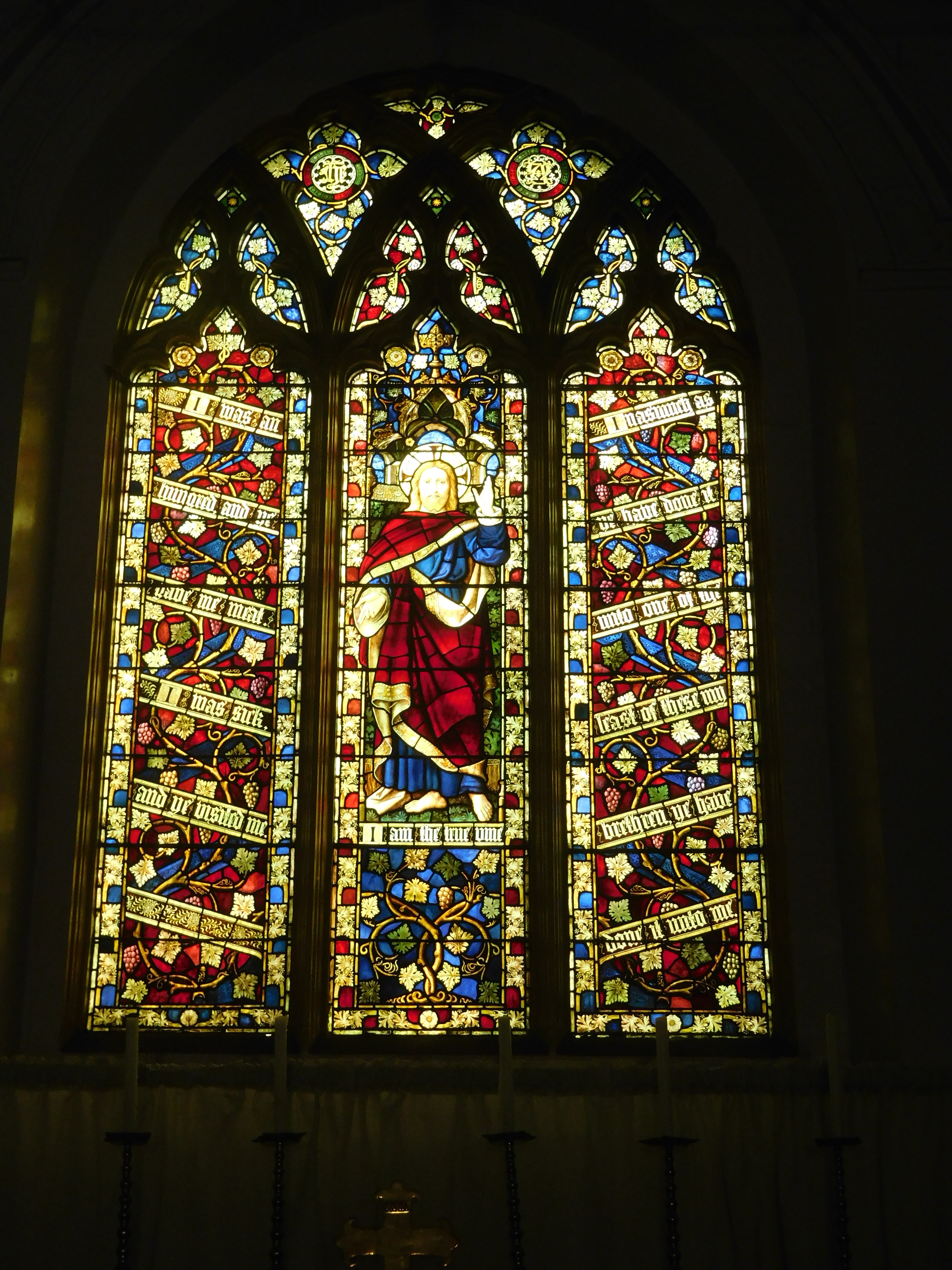 The stained glass windowpane in the sanctuary of the St Stephen's church of Kidderpore, Calcutta (India)